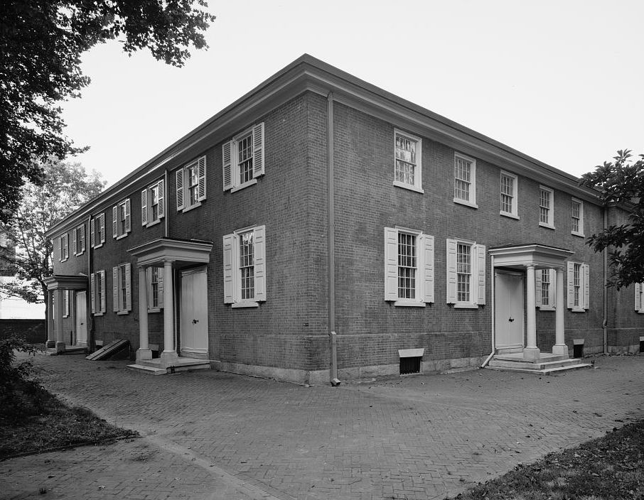 Arch Street Friends Meeting House, 330 Arch Street, Philadelphia, Pennsylvania